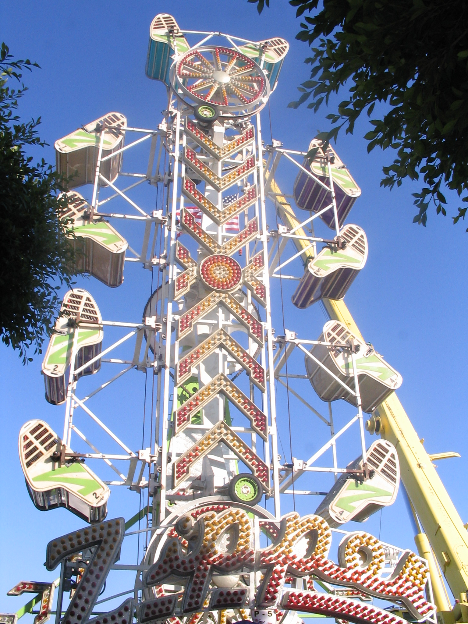 The Zipper at the Orange County Fair (California).